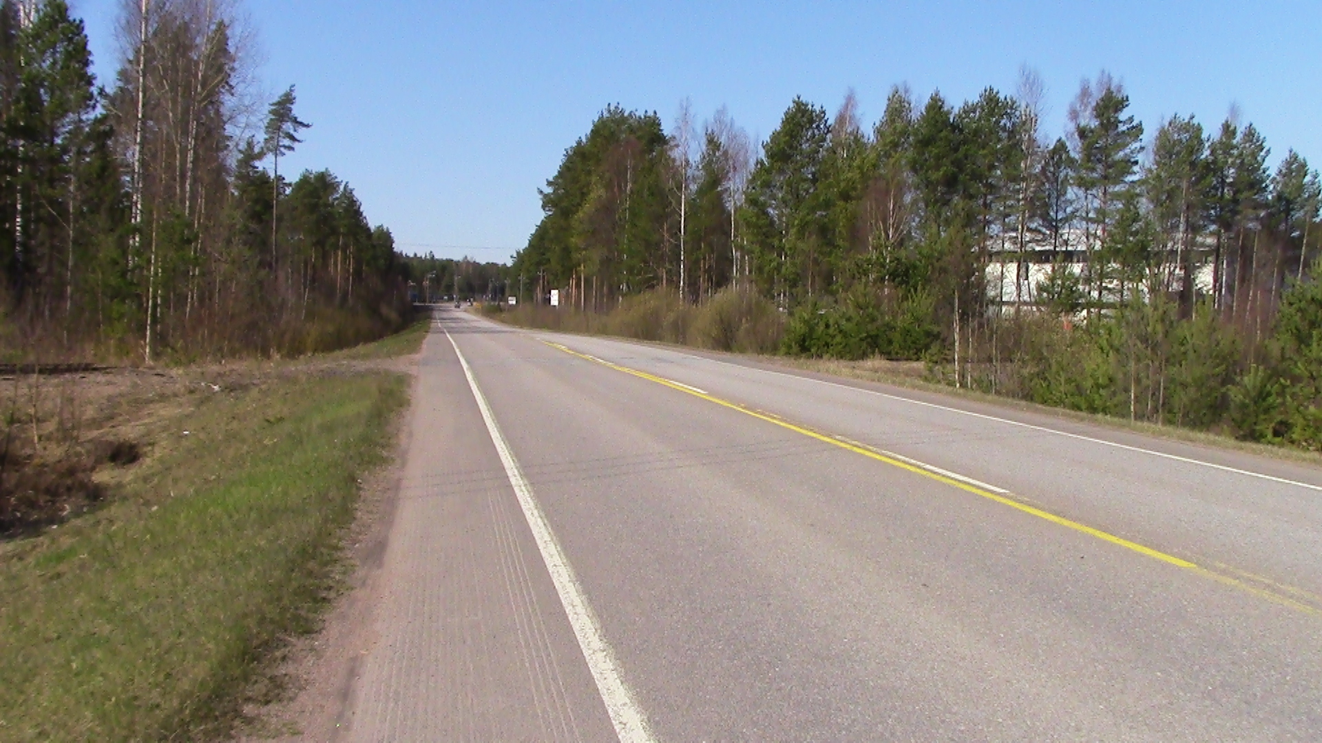 Finnish regional road 2054 at removed Eura-Säkylä II level crossing and abandoned Kiukainen-Säkylä line in Eura, Finland.